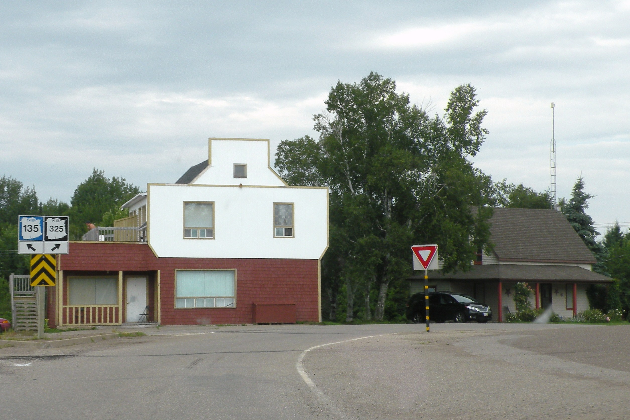 A view of the center of Trudel, Paquetville Parish, New Brunswick.